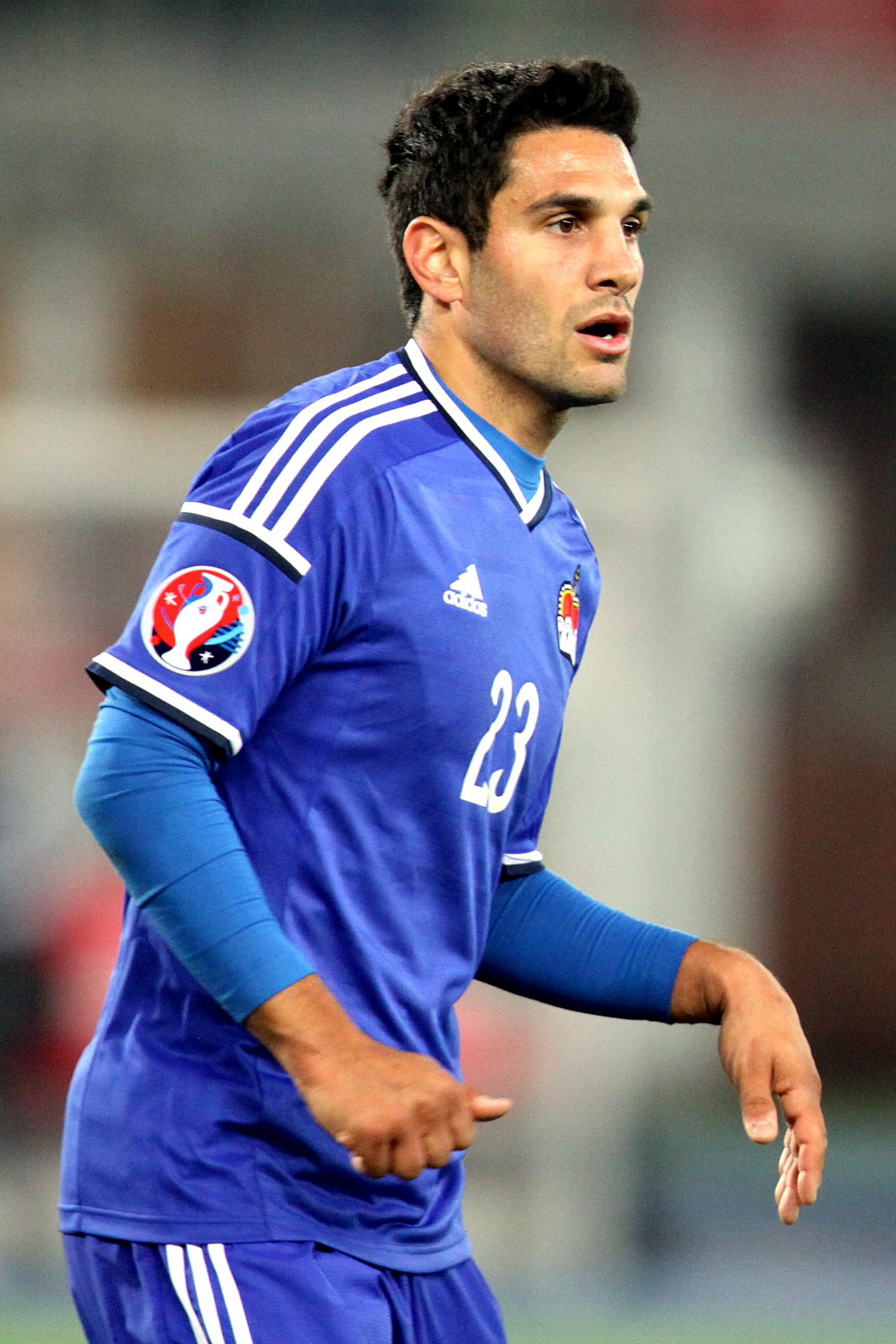 UEFA Euro 2016 qualifying, Group G – Austria (red shirts) vs. Liechtenstein (blue shirts) 3–0 (1–0) on 2015-10-12 in Ernst-Happel-Stadion, Vienna – The photo shows Michele Polverino